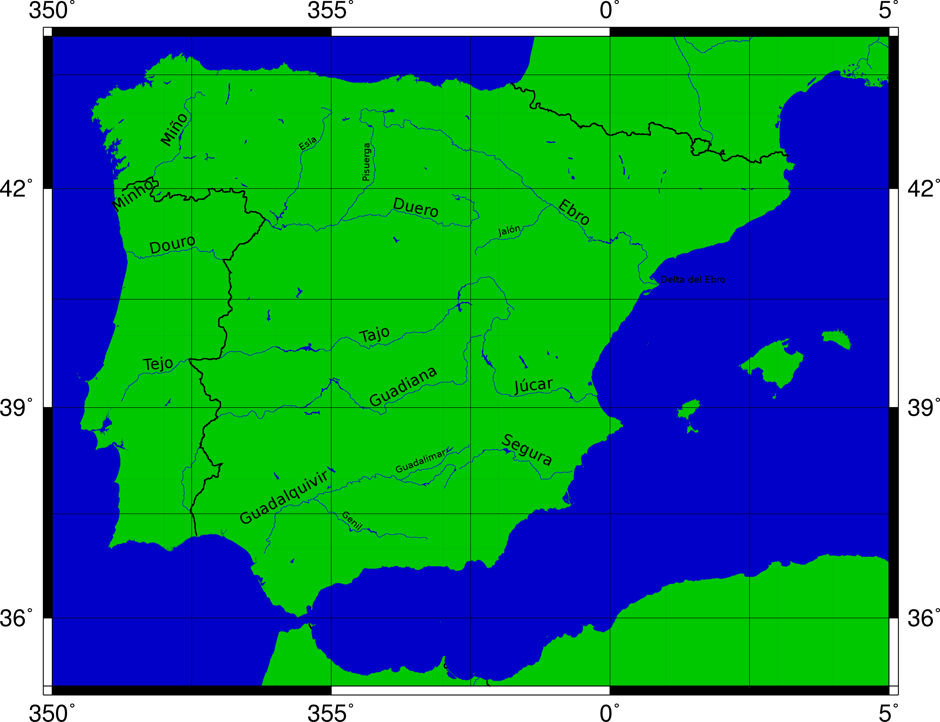 Main rivers of the Iberian peninsula with their names in Spanish and Portuguese. Created with GMT program and edited with GIMP. XCF version in Image:Rios_peninsula_Iberica-es.xcf